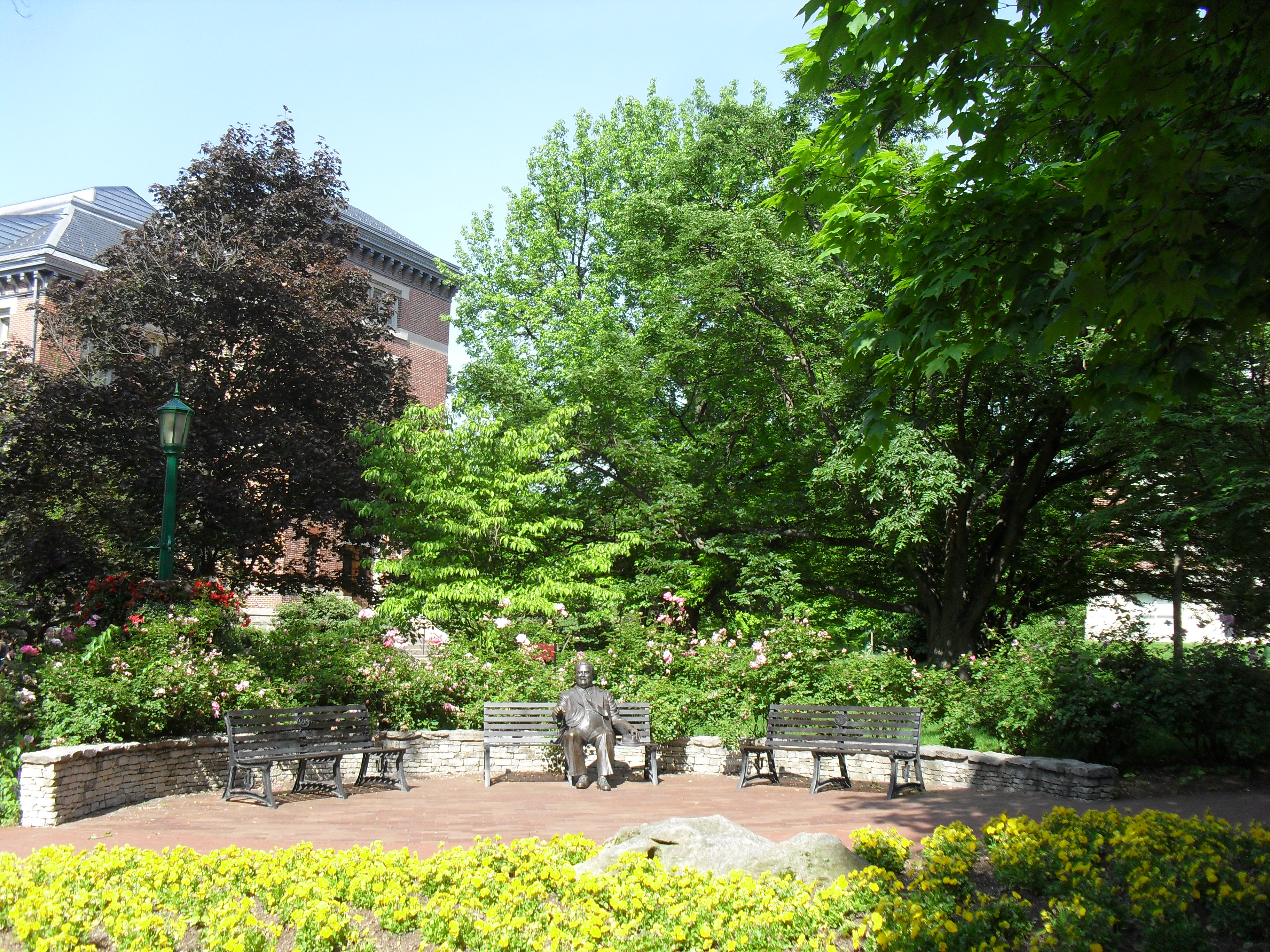 Hermann B. W. statue at Owen Hall, Indiana University, United States.